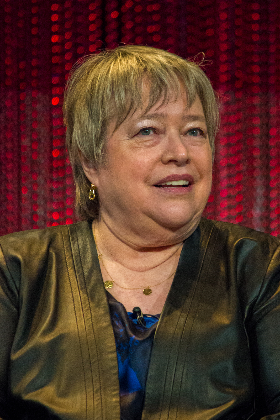 Kathy Bates at PaleyFest 2014 for the TV show "American Horror Story: Coven"